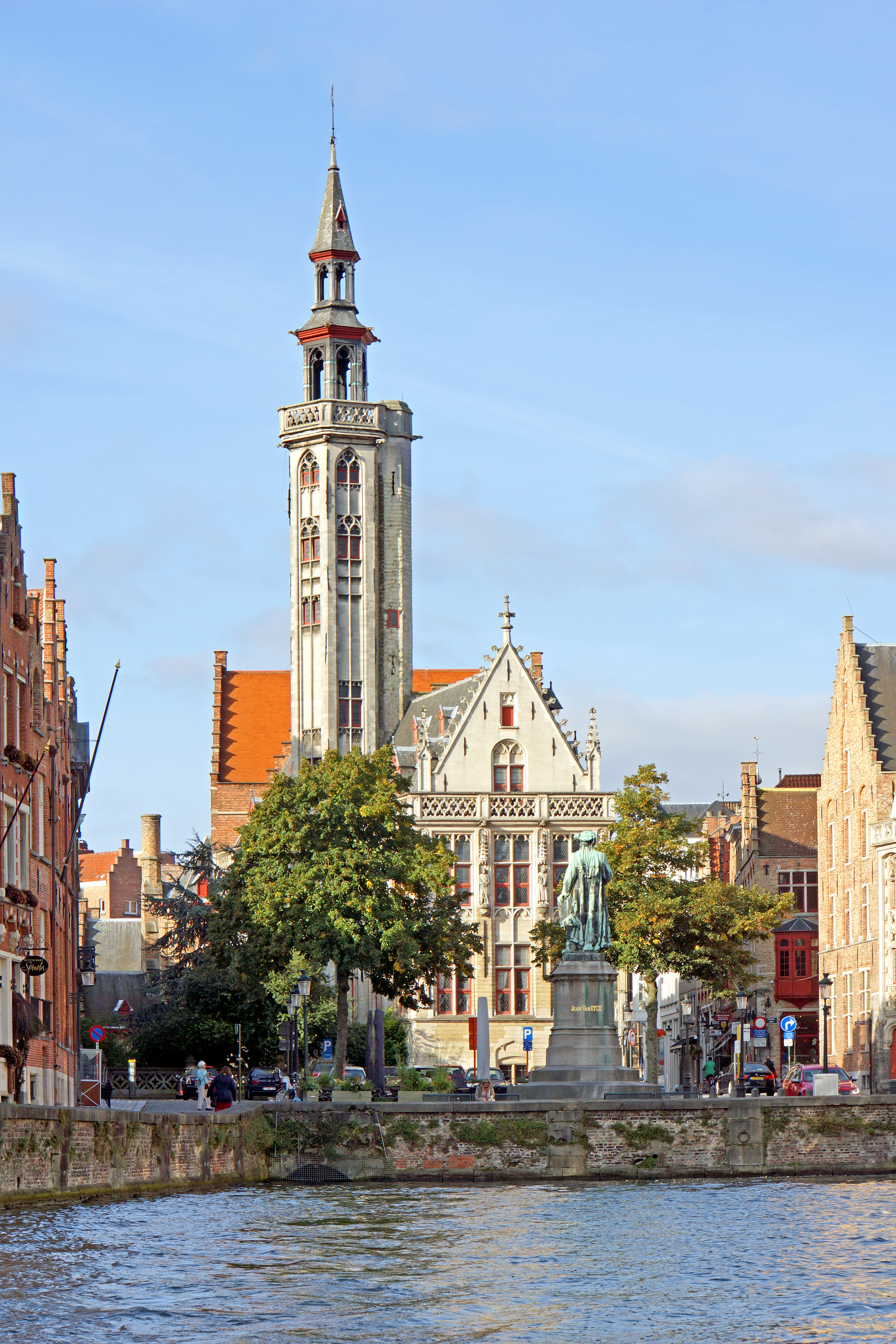 PLEASE, NO invitations or self promotions, THEY WILL BE DELETED. My photos are FREE to use, just give me credit and it would be nice if you let me know, thanks. Jan van Eyckplein (renowned Bruges painter) statue and the Poortersloge (Burgher’s Lodge) can be seen at the end of the canal. Poortersloge (1417) was a meeting place for wealthy 15th century Burghers of Bruges.